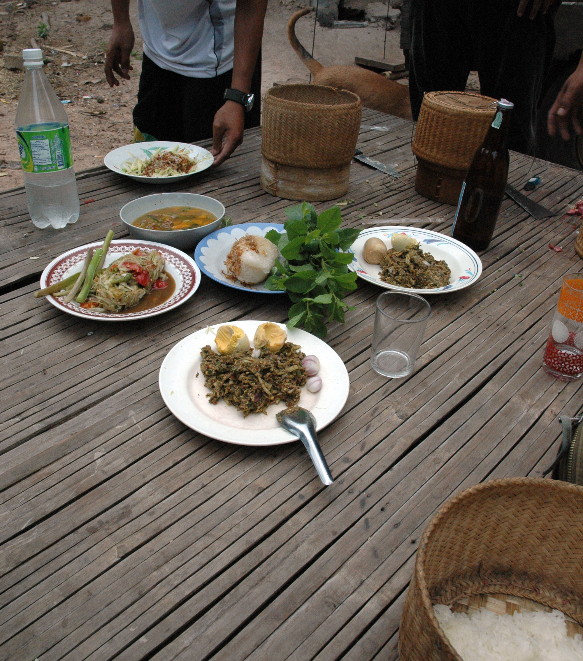 The finished green iguana lunch, ready to serve: In front and on the right - dishes with iguana meat and boiled iguana eggs In center - sort of glass noodle with fish sauce and leafy herb On the left and in most back - green papaya salad Behind the noodle dish - bowl of pumkin/squash beef soup